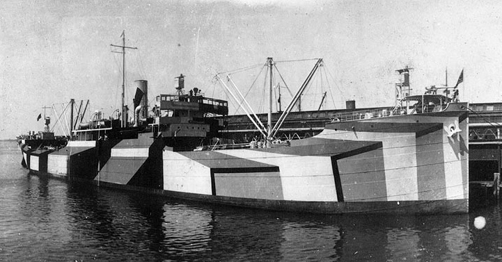 Cropped image (see below for link to original version) USS West Shore (ID # 3170) Panoramic photograph of the ship in port, circa 1918. Note her pattern camouflage, apparently freshly applied. The ship still carries her guns, and has her name displayed on a board on the face of her lower bridge. Courtesy of the Naval Historical Foundation. Collection of Lieutenant Charles Dutreaux. U.S. Naval Historical Center Photograph.